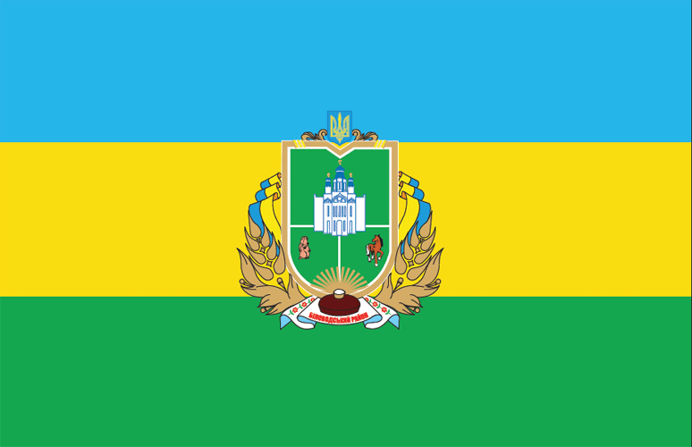 Flag of Bilovodskyj district